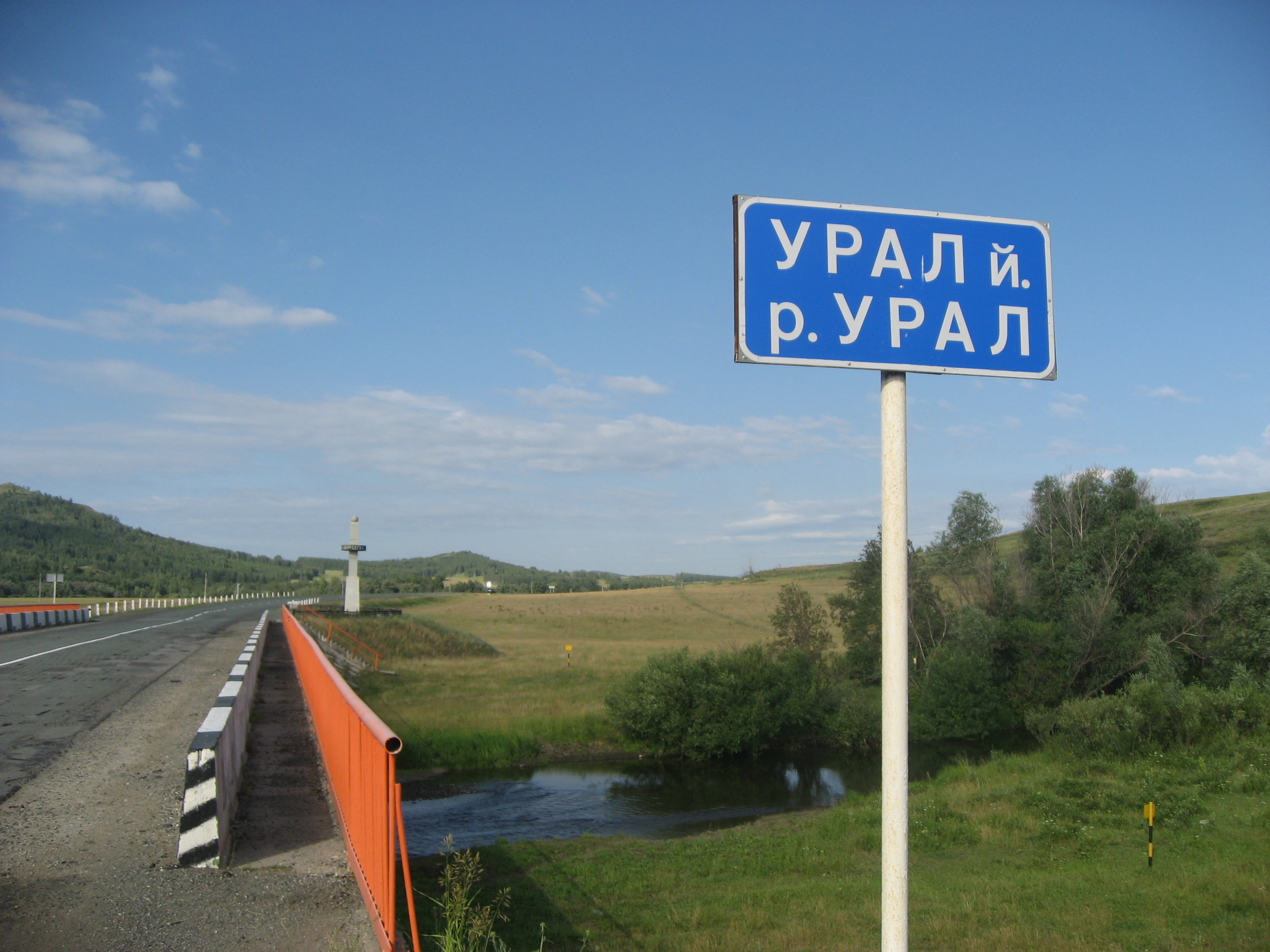 Signpost in both Bashkir and Russian. The bridge across the Ural River in the Uchalinsky District (Bashkortostan) Башҡортса: Учалы районы Уральск касабахы янында Яйык йылгахы